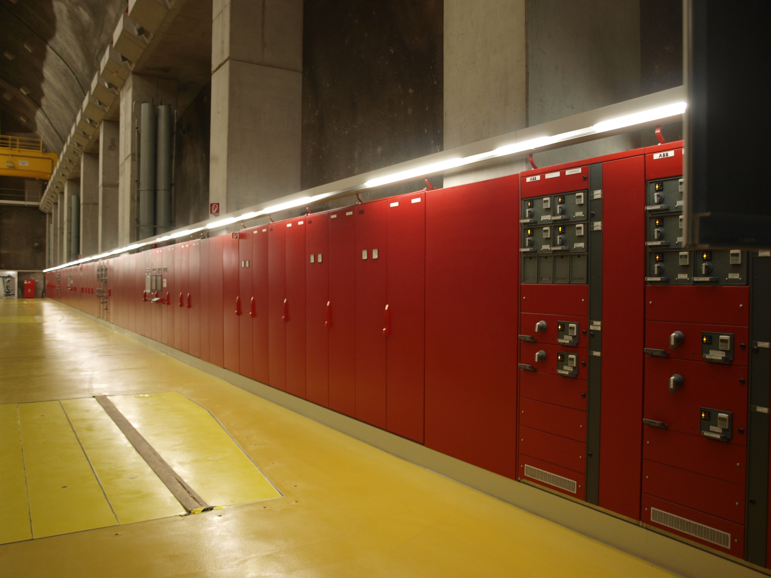 Kopswerk II - electrical cabinet ABB - full lenght